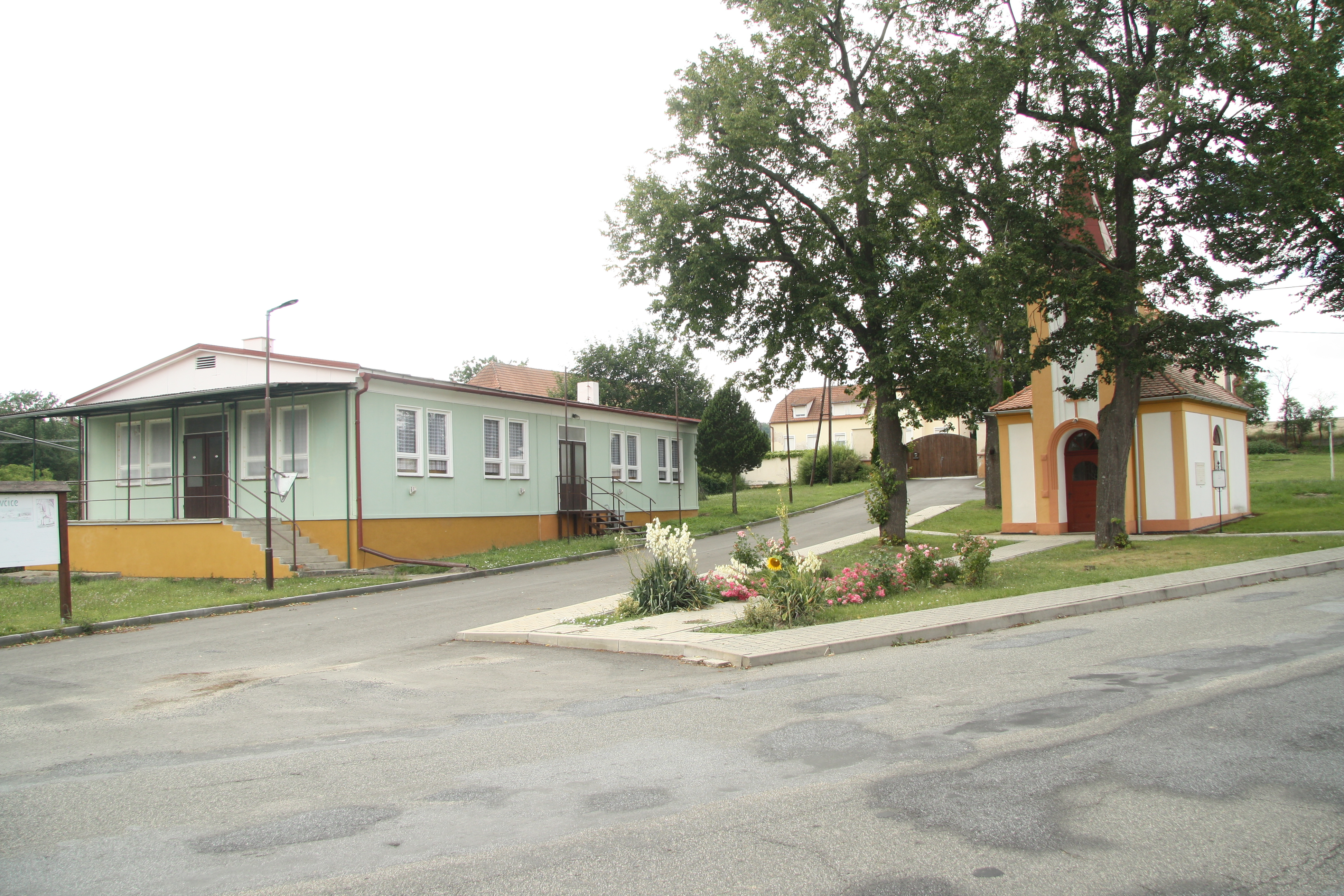 Center and chapel of the Assumption of Virgin Mary in Vevčice, Znojmo District.